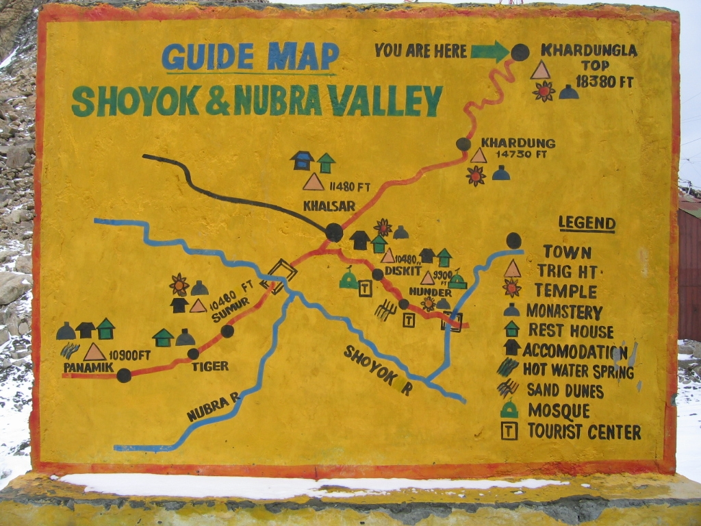 Shoyok and Nubra Valley handpainted map from the Khardung La point of view. This is a wall standing on the top of Khardung La and mapping the way to Khalsar.